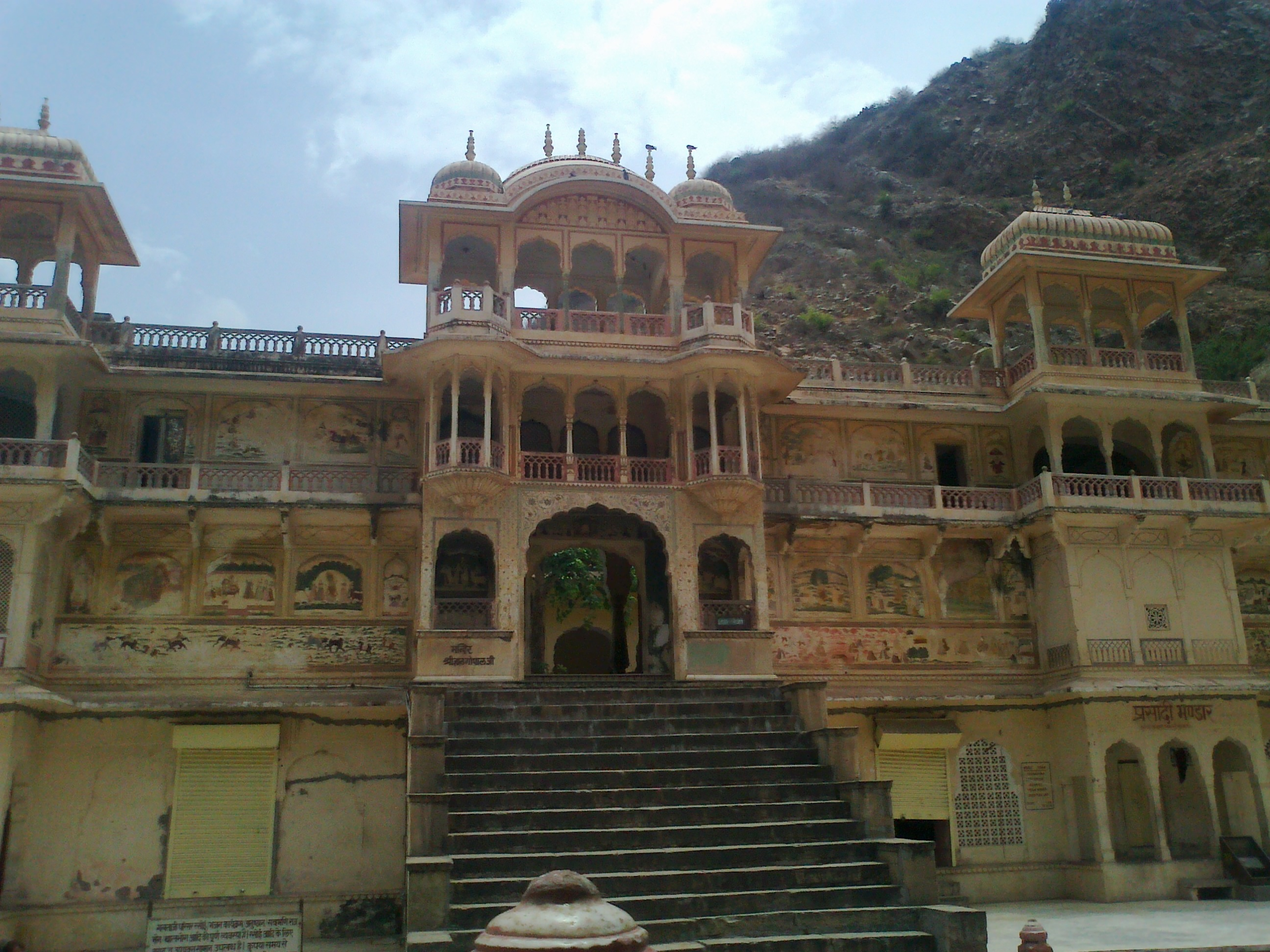 Temple containing Fresco paintings